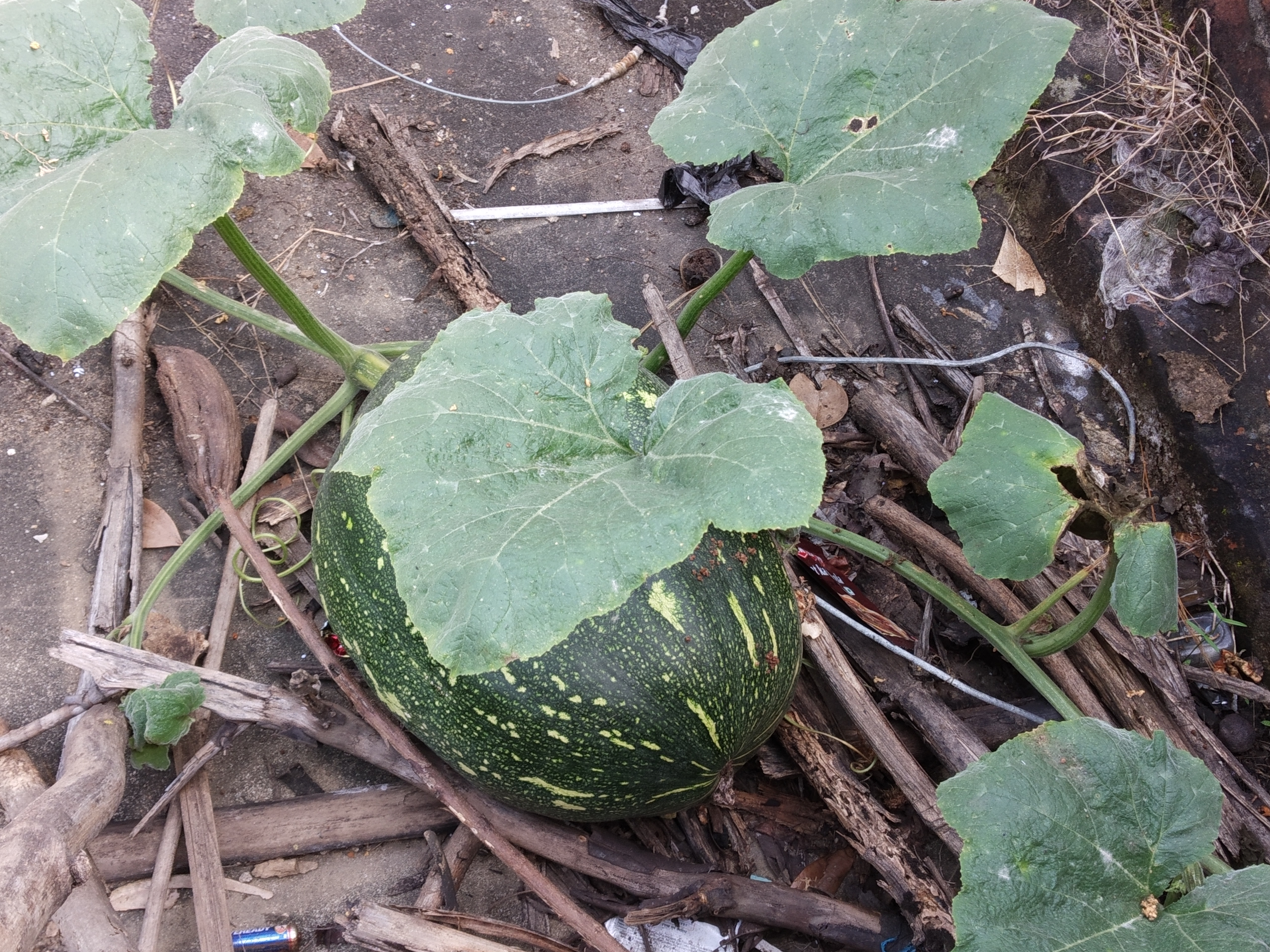 indian local vegitables